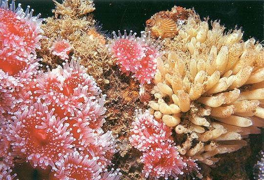 Aggregating Anemone on the Yukon in Wreck Alley, San Diego